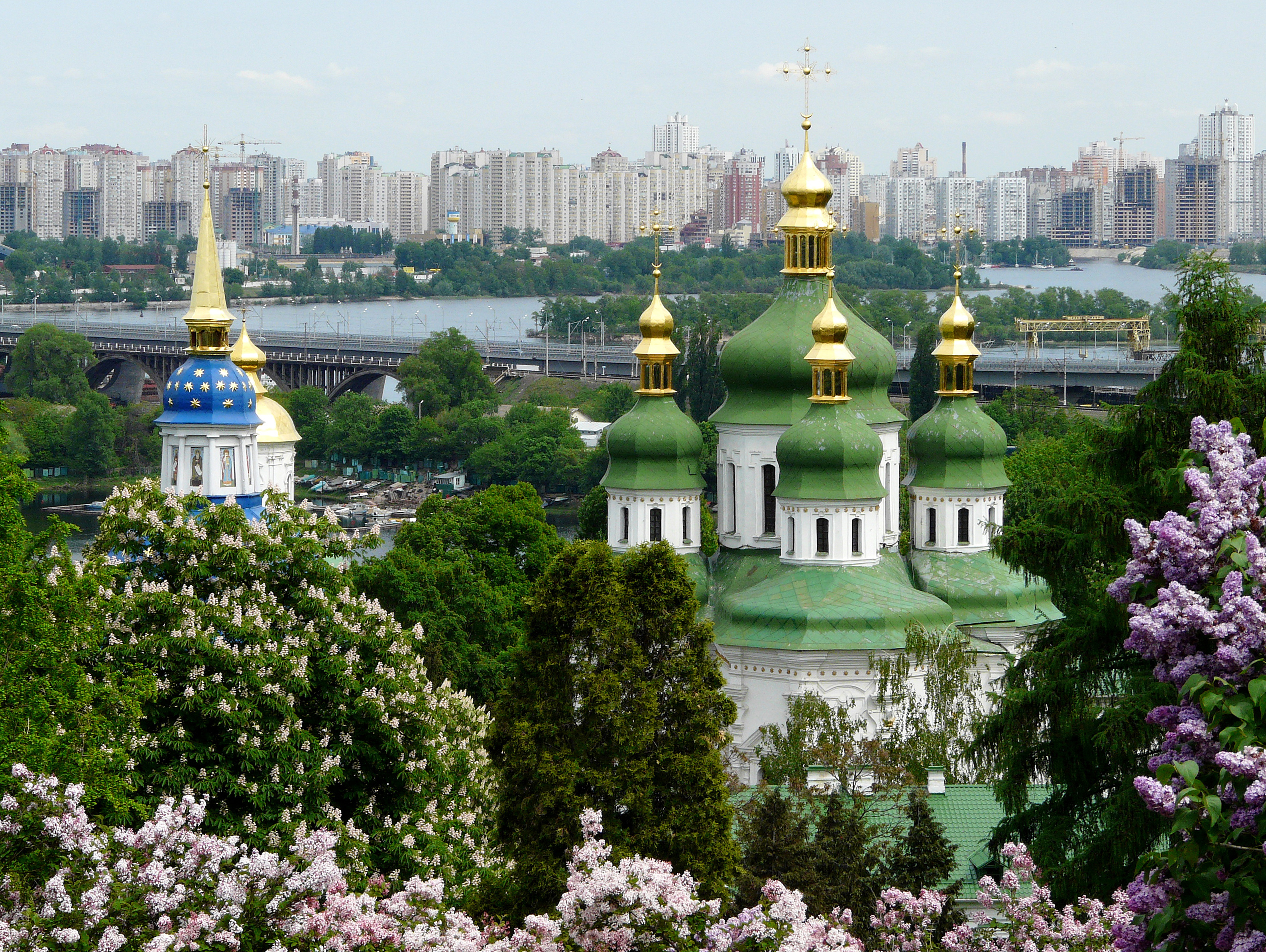 Vydubychi Monastery: Saint George Cathedral (1696-1701) and bell tower (1727-1733), Kiev, Ukraine